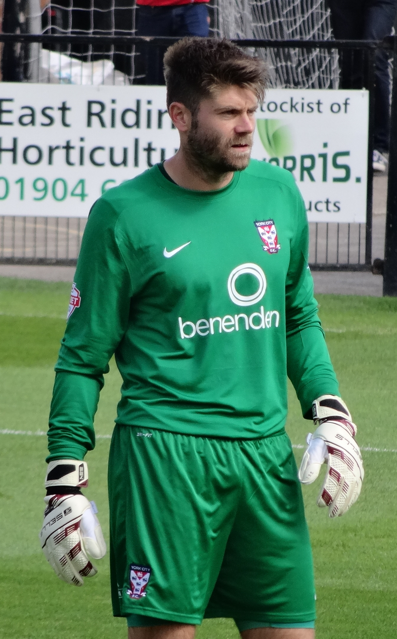 Scott Flinders playing for York City against Hartlepool United at Bootham Crescent, York on 15 August 2015